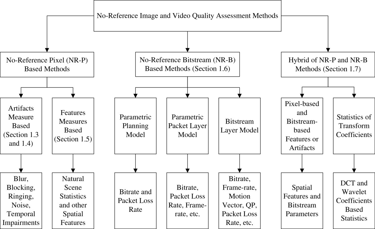 An overview of NR image and video quality assessment methods. The second row of boxes gives a division into three main categories, further divided into subcategories in the next row. The bottom row gives examples of extracted features or information used for processing in each subcategory.